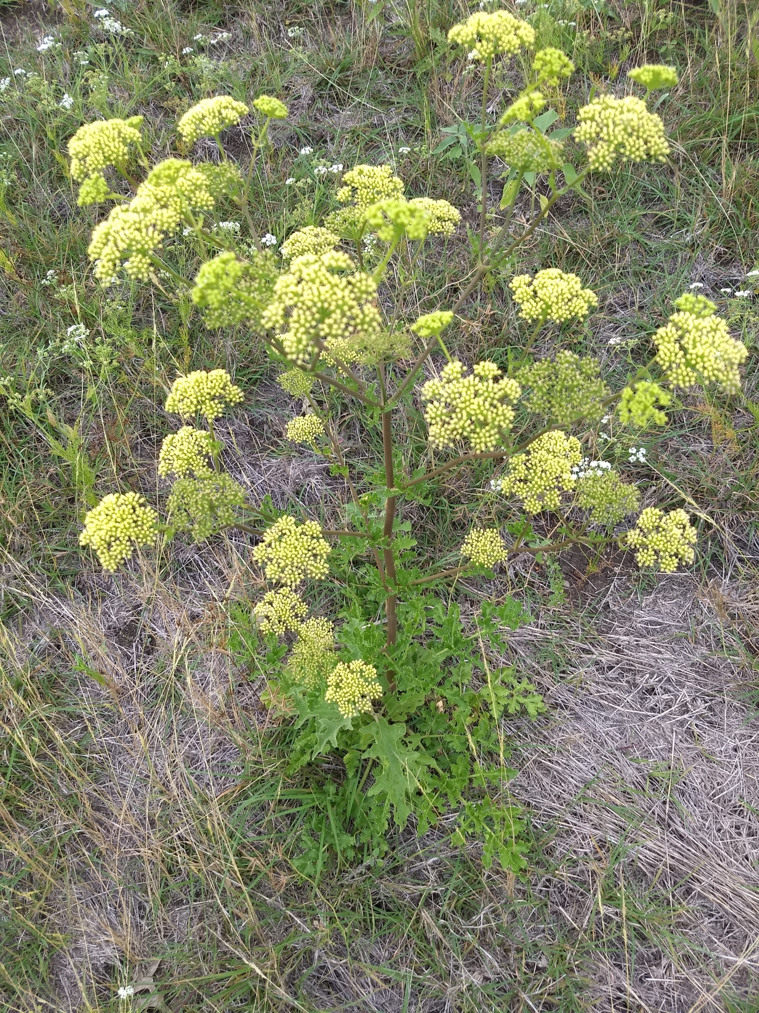 Texas Prairie Parsley. Wild plant.